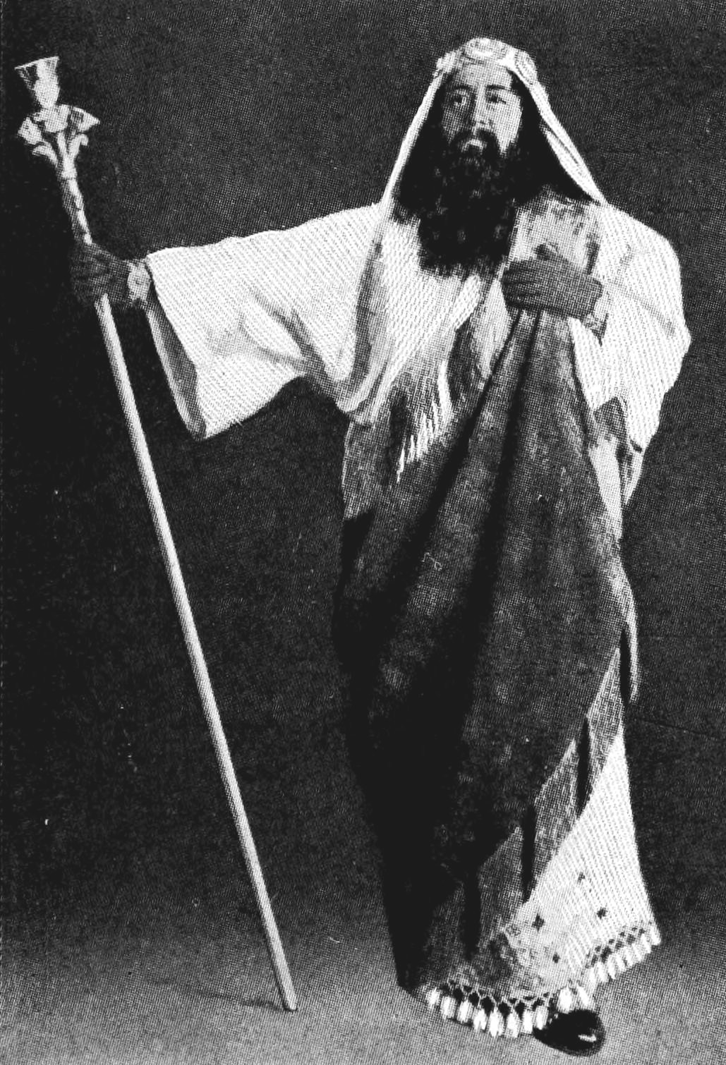 Mozart - Die Zauberflöte - Sarastro Title: The Victrola book of the opera : stories of one hundred and twenty operas with seven-hundred illustrations and descriptions of twelve-hundred Victor opera records Year: 1917 (1910s) Authors: Victor Talking Machine Company Rous, Samuel Holland Subjects: Operas Publisher: Camden, N.J. : Victor Talking Machine Co. Text Appearing Before Image: y flow.And smiles and tears, so legends say,Make up the sum of Lifes brief day. Yet, whilst that smile the brow is wreathing,One word shall change it to a tear, And one soft sighs impassiond breathingShall bid the tear-drop disappear, When each alike misleads in turn, Oh, who the hearts deep lore shall learn! After many adventures Tamino and Paminameet, and by means of the magic flute they areabout to escape, but are interrupted by Sarastro,who agrees to unite the lovers if they will remainand be purified by the sacred rites; and as thepriest separates them and covers their heads withveils, the curtain falls. ACT II The first scene shows a noble forest and theTemple of Wisdom. The priests assemble, andSarastro orders the lovers brought before him. Hethen sings this superb Invocation, one of the mostimpressive numbers in the opera. Invocation (Great Isis) By Pol Plancon, Bass (Piano ace.) (In Italian) 85042 12-inch, $3.00 (In French) 64235 10-inch, 1.00 (In German) *45051 10-inch, 1.00 Text Appearing After Image: By Marcel Journet, Bass By Metropolitan Opera Chorus * Double-Faced Record—See page 275. 273 VICTROLA BOOK OF THE OPERA —THE MAGIC FLUTE